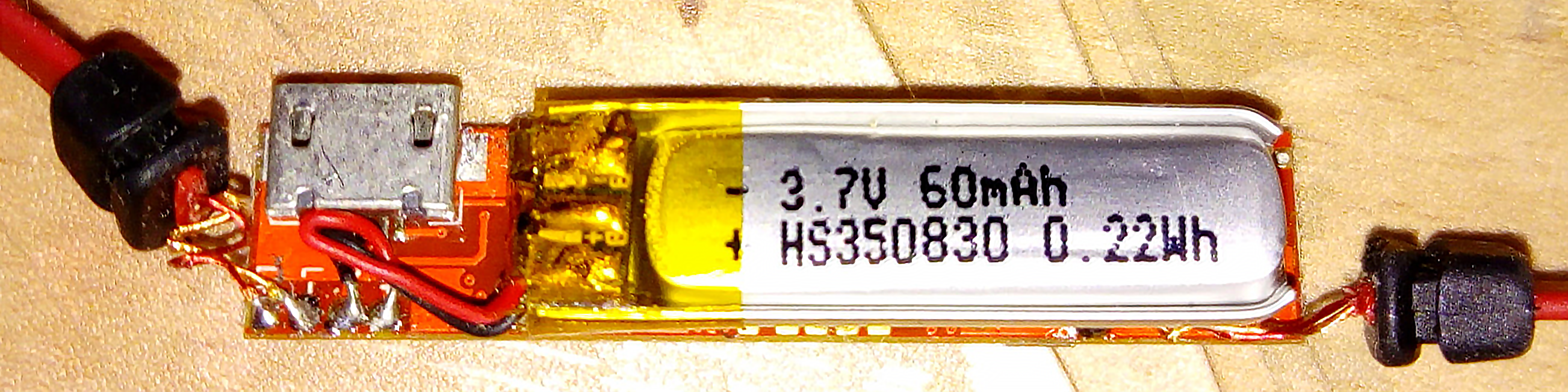 An image of a bluetooth headset with a Li-Ion battery wrapped with Kapton Tape for protection of the cell's pads.